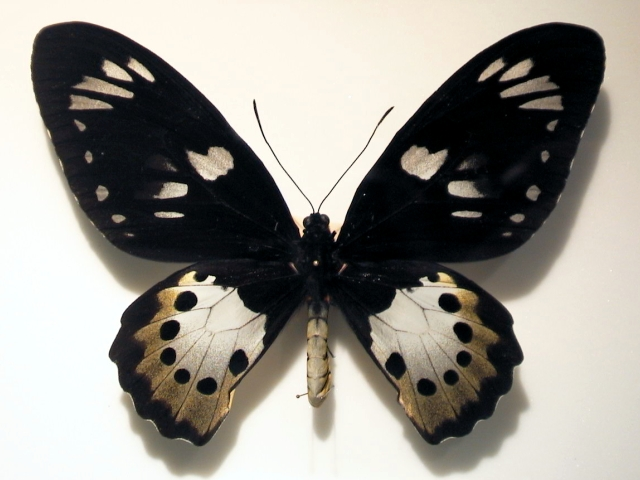 Ornithoptera paradisea, female